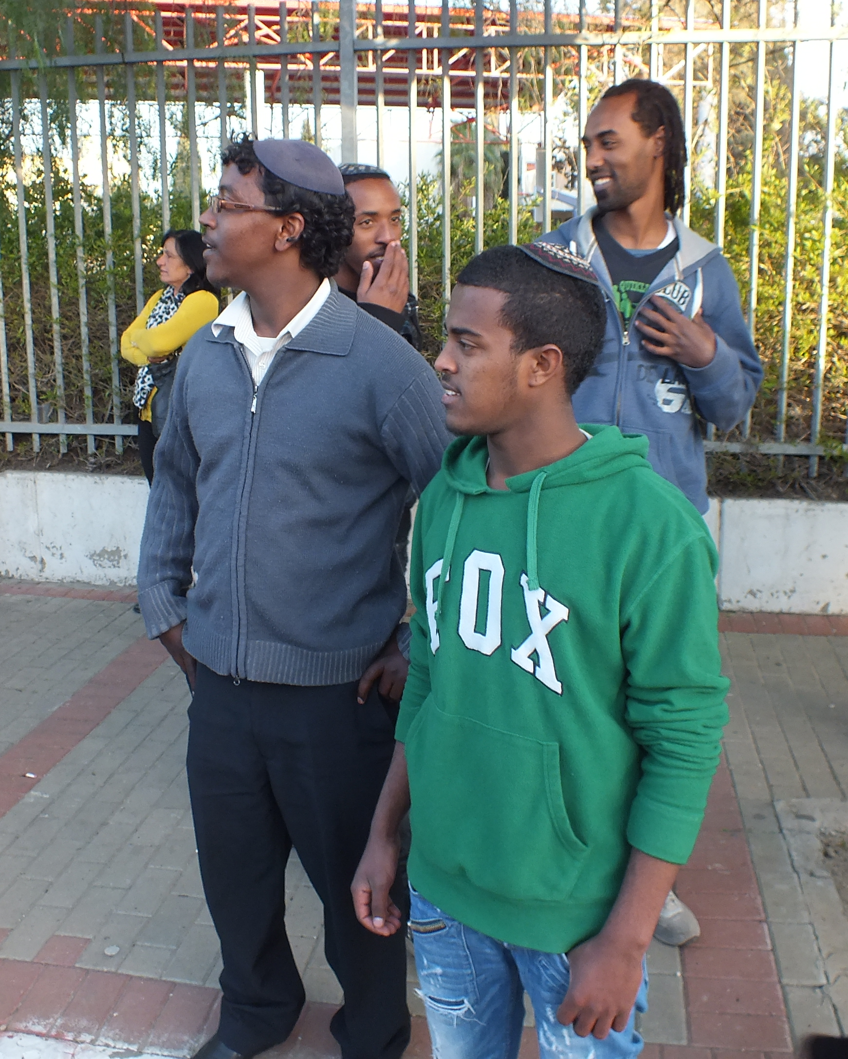 Young men, evidently of Ethiopian descent and wearing the kippah, watching a parade on a street in Israel .